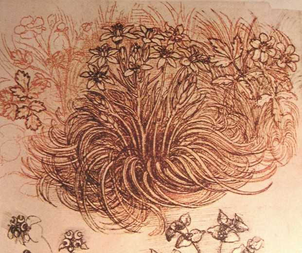 Leonardo da Vinci, Drawing of a botanical study, "Star of Bethlehem", Ornithogalum umbellatum